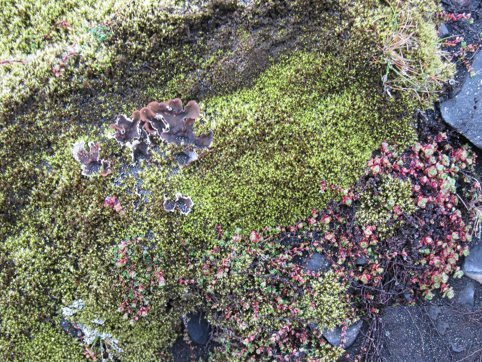 Lichens, mosses and grasses